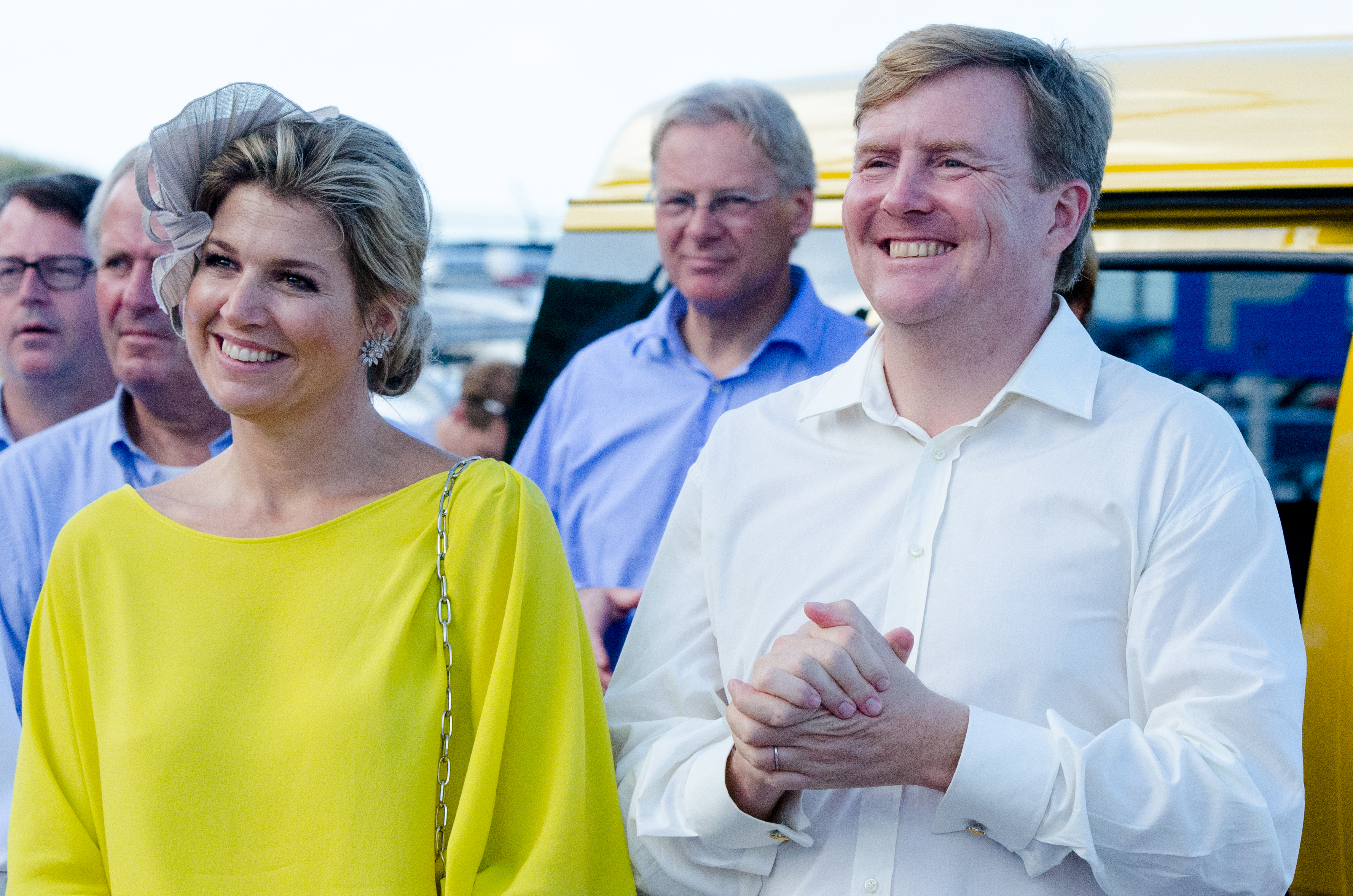 King Willem-Alexander and Queen Maxima 2013 Dutch Caribbean Tour.